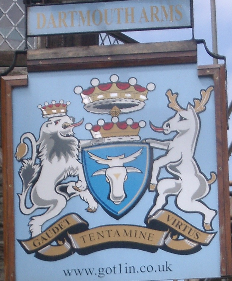 Pub sign in Dartmouth near Harbour. "Virtue thrives in temptations".